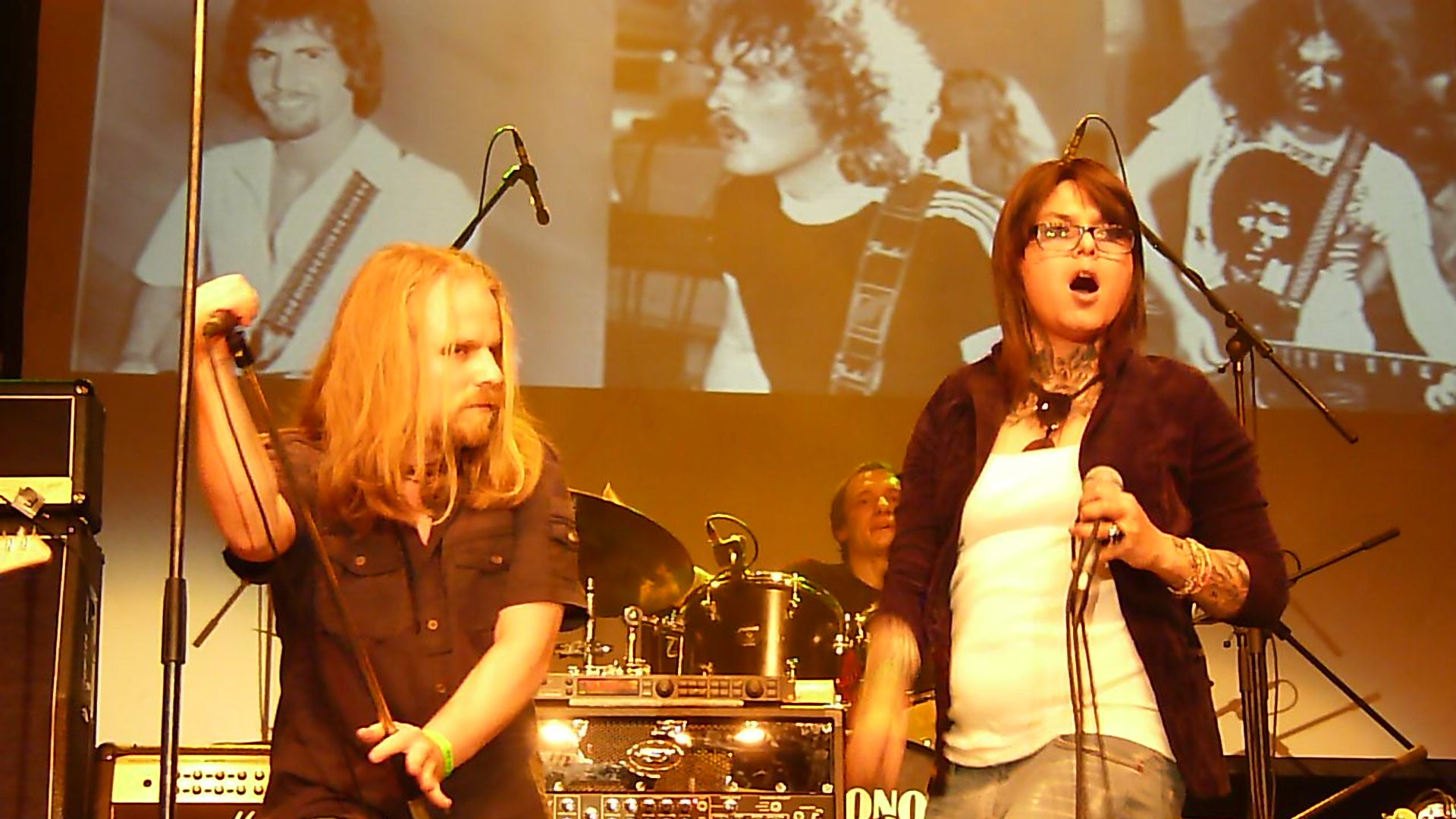 Recorded live at the Petőfi Csarnok (Petőfi Music Hall) Budapest, Magyarország. 30th of September, 2012. Tribute to Radics Béla, Bencsik László and Barta Tamás, the band in Heaven. ©© Derzsi Elekes Andor, Budapest, 2013, You are authorised to use these photos and vids under Creative Commons – even for commercial, for profit purposes. Photos must be attributed to Derzsi Elekes Andor. All of the photos and vids in the Metapolisz DVD line are under Creative Commons and can be used even for commercial – for profit – purposes. Recommended Citation Derzsi Elekes Andor: Metapolisz DVD line A felvétel Budapesten, a Petőfi Csarnokban (PECSA Music Hall) készült 2012. szeptember 30–án.